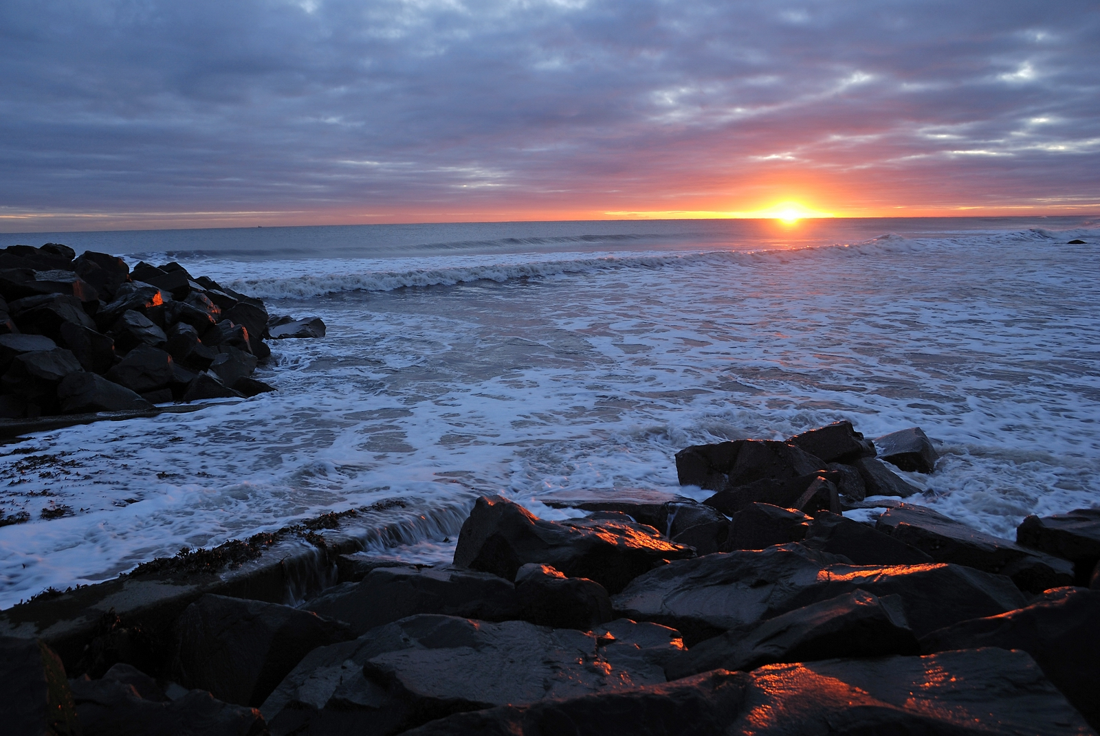 Sunrise on the sea